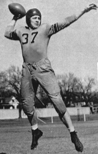 Missouri Tiger Bob Steuber